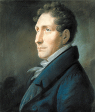 Portrait of Friedrich Kuhlau, the German-Danish composer